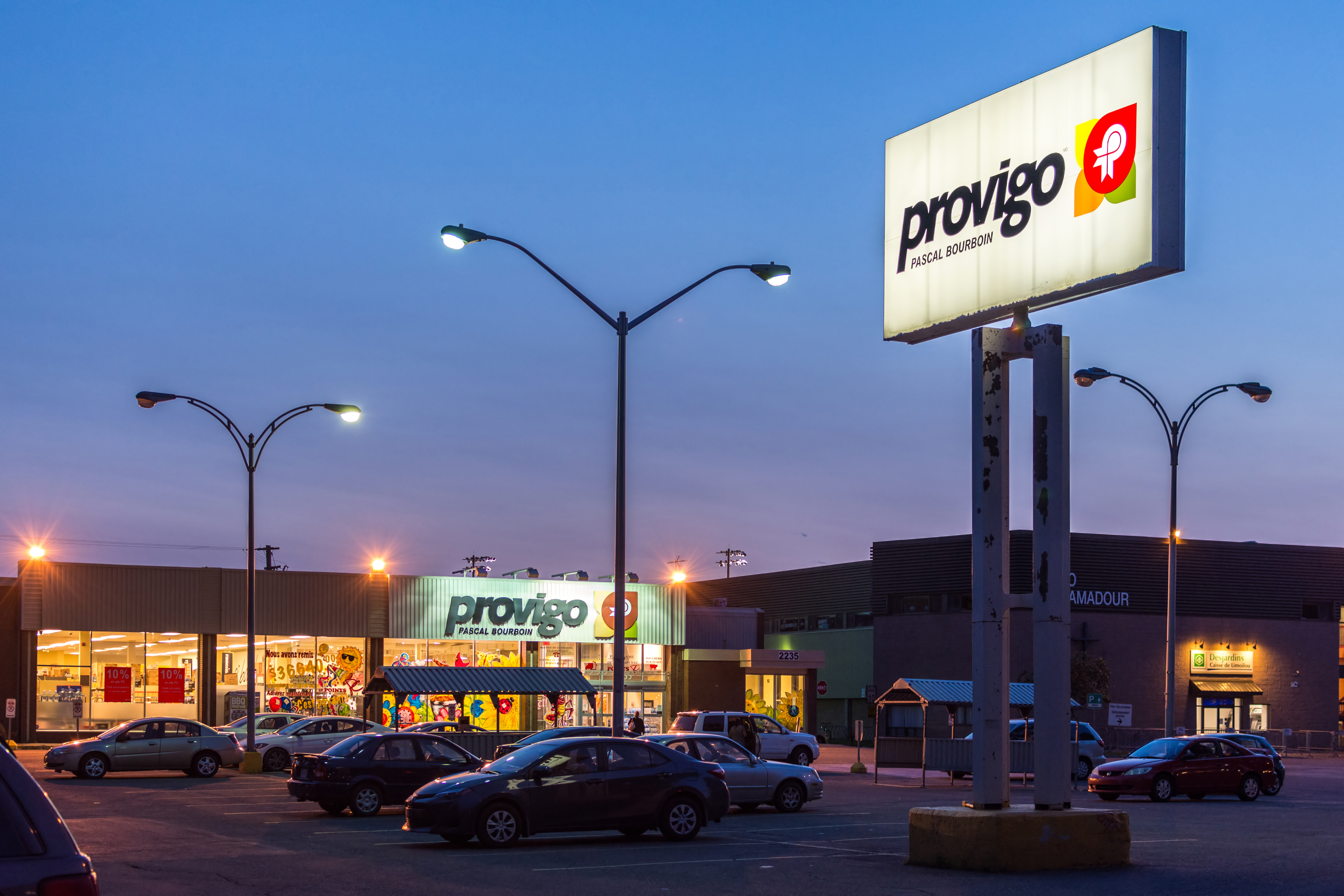 Vieux-Limoilou (2235, 1ere avenue, Québec)